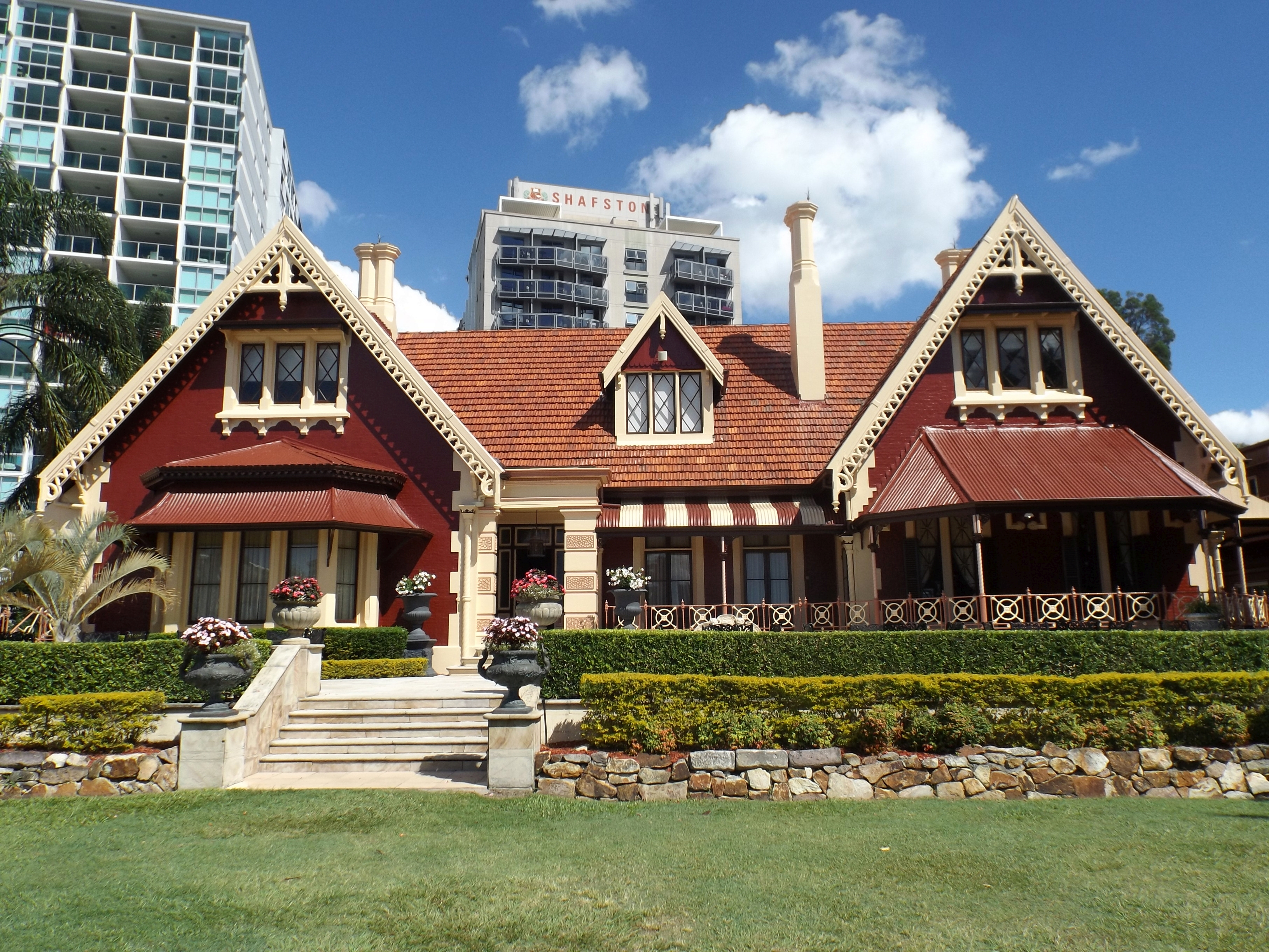 Photo of Shafston House from riverside lawn at Kangaroo Point, Brisbane, Queensland, Australia.